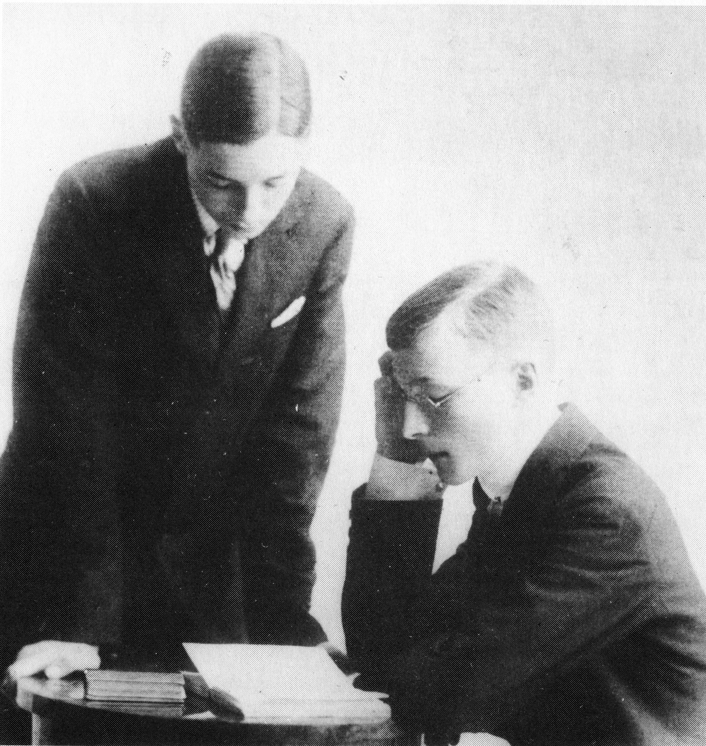 Vladimir (standing) and Sergei Nabokovs in St. Petersburg 1916.